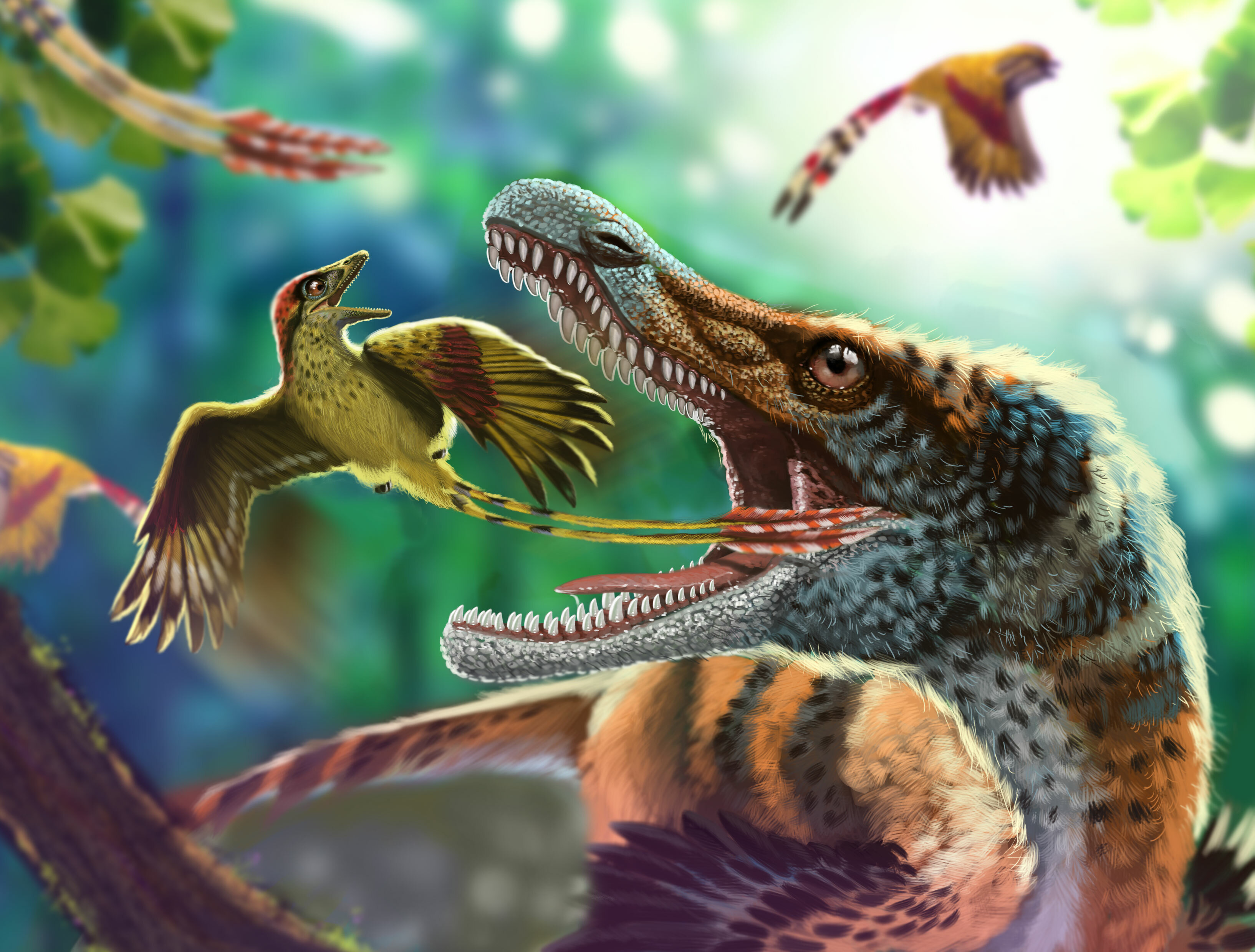 Mirischia and Cratoavis